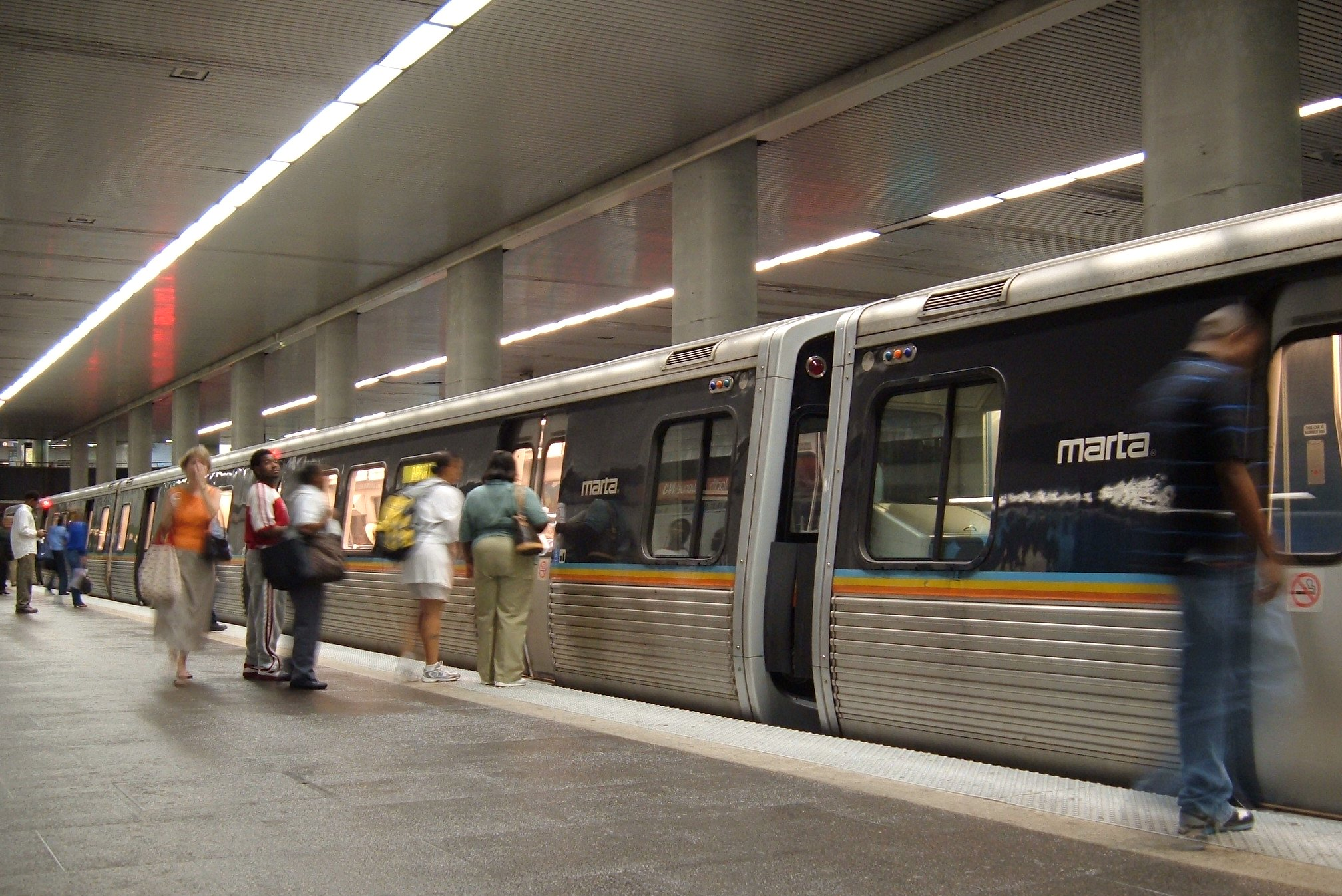 MARTA N3 (North Avenue) station